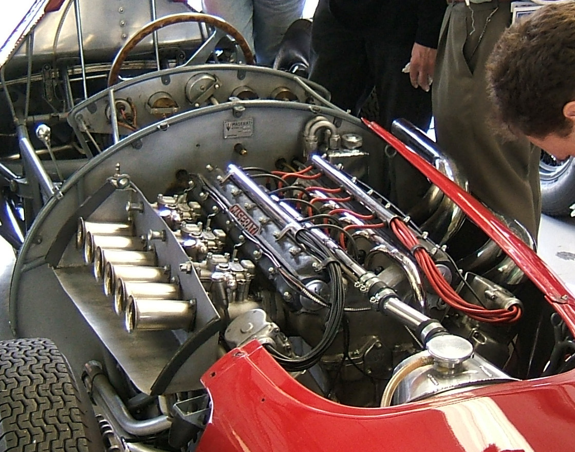 A Maserati L6 Formula One engine, installed in a Maserati 250F. In the pit garages at the Silverstone Circuit, July 2007.